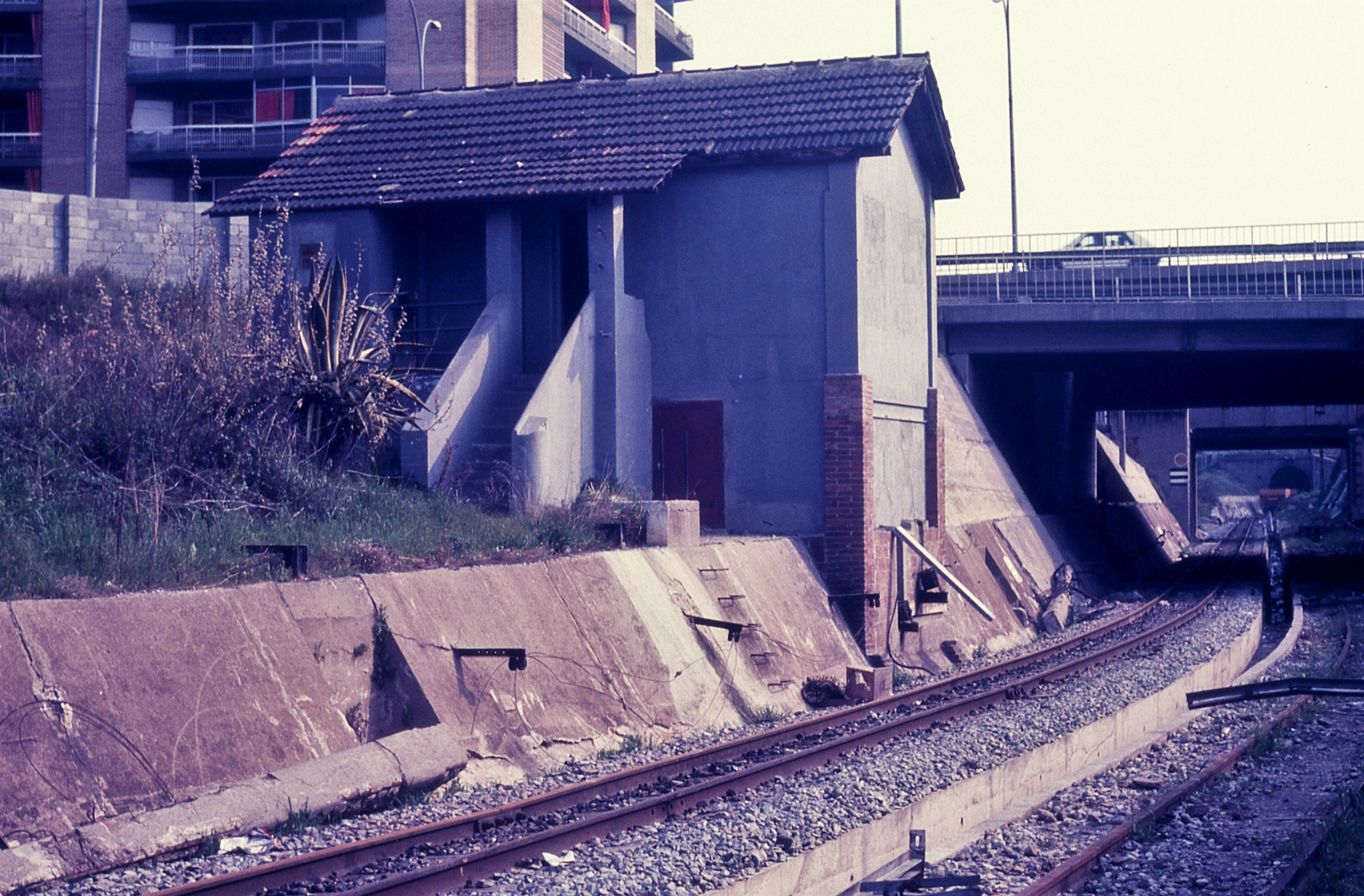 The old signal box known as the Riera Blanca Cabin, located on the single track section between the tunnel that went to Plaça Espanya and the Sant Josep halt, during the dismantling process after the commissioning of the underground section on 2 February 1987. The track on the left, closest to the signal box, went to Plaça Espanya. The track on the right goes, on the surface, towards the port of Barcelona. And behind the house formerly it was the track that went to the station in Magòria, until its closure in 1974.. This point is located right at the confluence of the current Rambla de Badal and Passatge Marçal streets. The overpass corresponds to the Rambla de Badal.